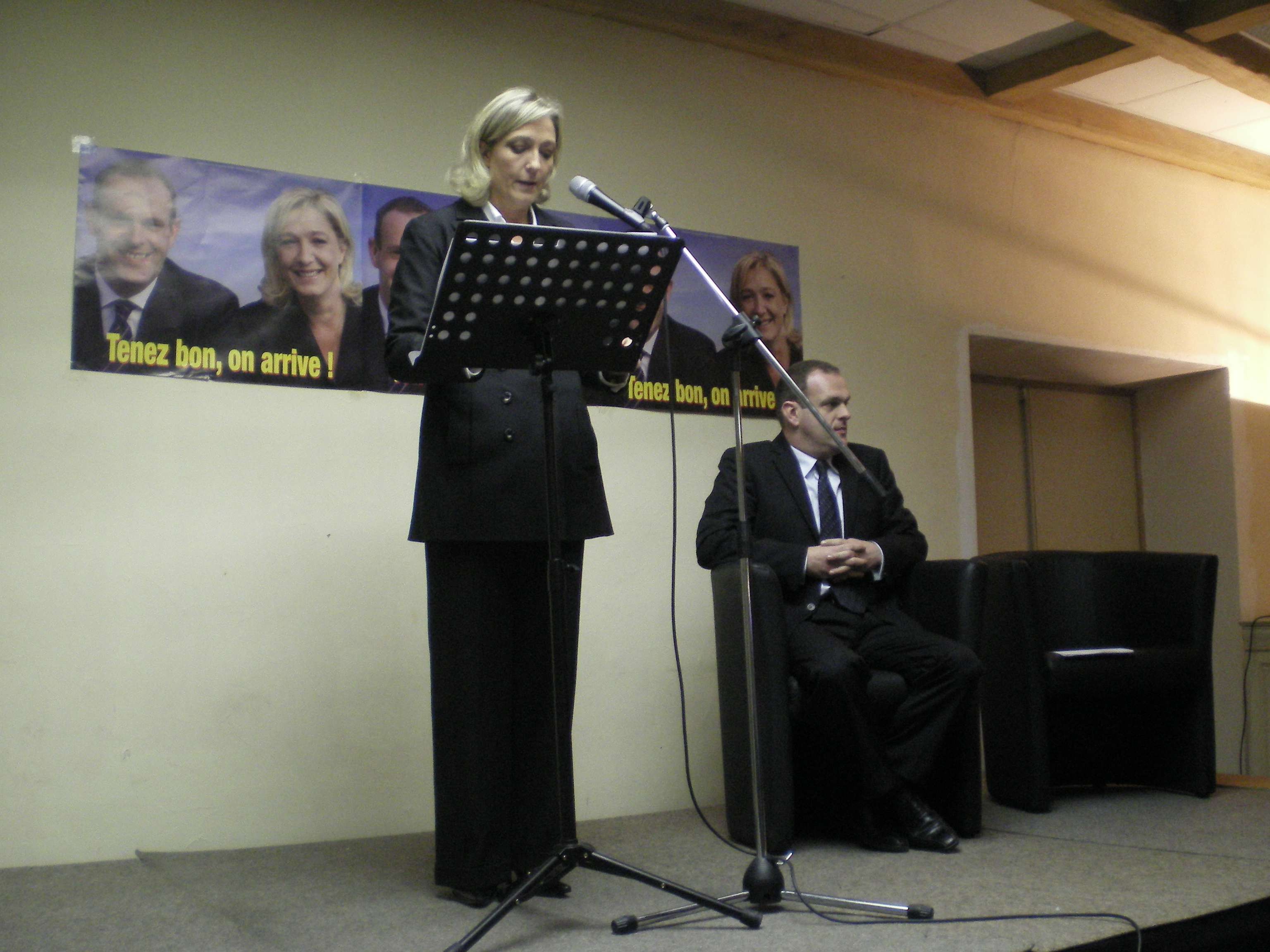 Marine Le Pen and Steeve Briois holding a press conference in Hénin-Beaumont, Pas-de-Calais, France, for the launch of the municipal election of 2008.